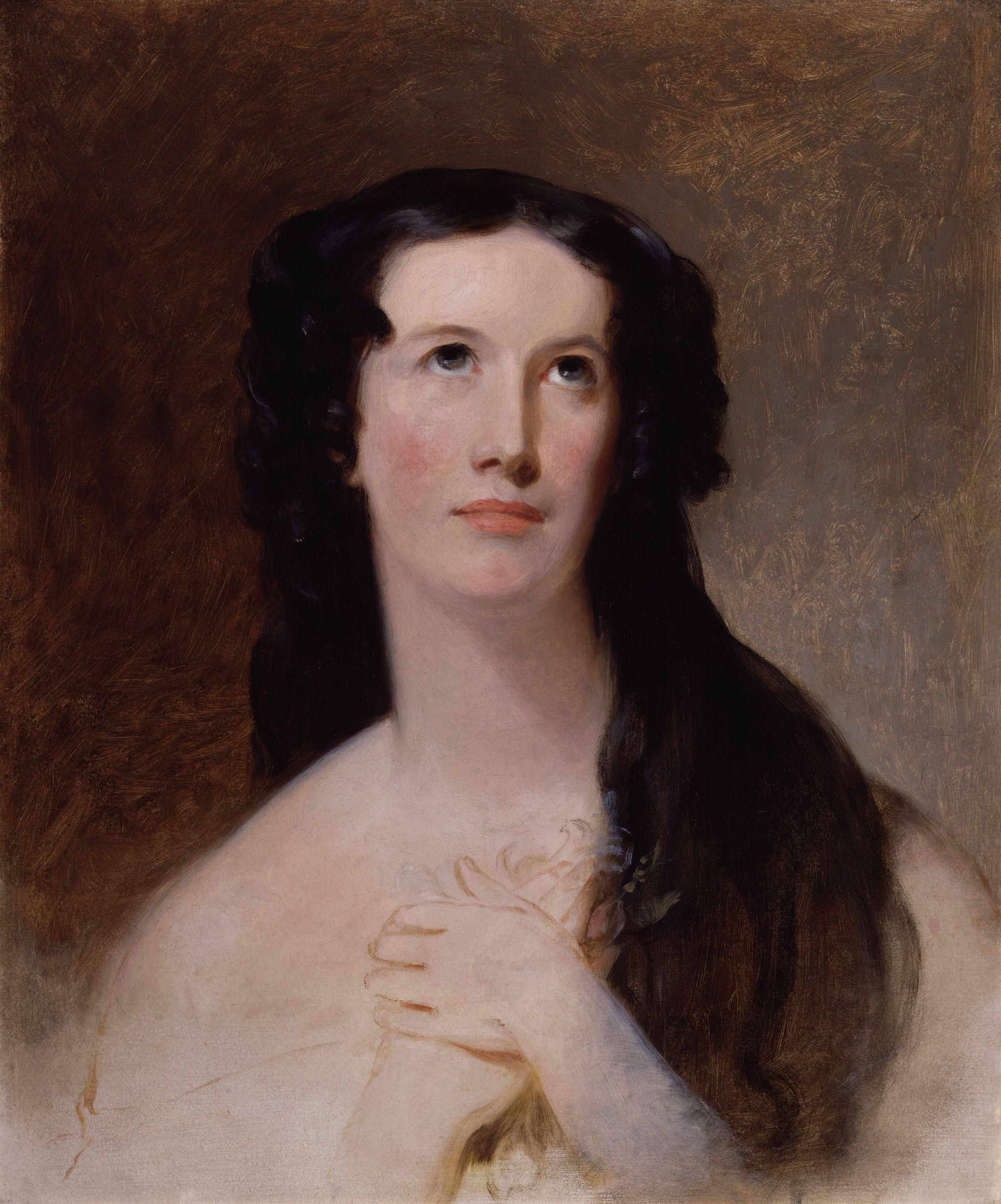 Mary Ann Paton (Mrs Wood), by Thomas Sully (died 1872), given to the National Portrait Gallery, London in 1903. All images in this batch have been confirmed as author died before 1939 according to the official death date listed by the NPG.